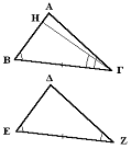 Determining congruence of triangles ASA comparison